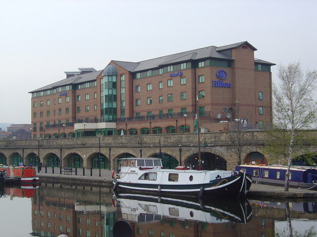 Sheffield Hilton Hotel. In the foreground is Sheffield Canal Basin/Victoria Quays, at the end of the Sheffield-Tinsley Canal.